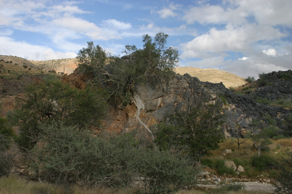 Ficus ilicina, Naukluft Mountains